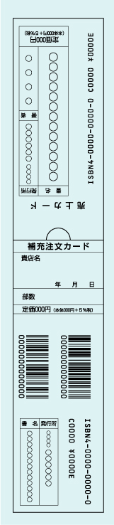 Japanese sales slip for books